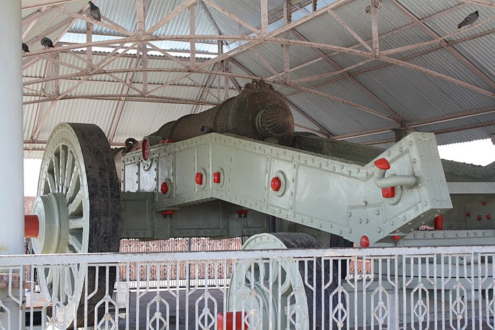 Jaivan Canon on wheels in Jaigarh Fort